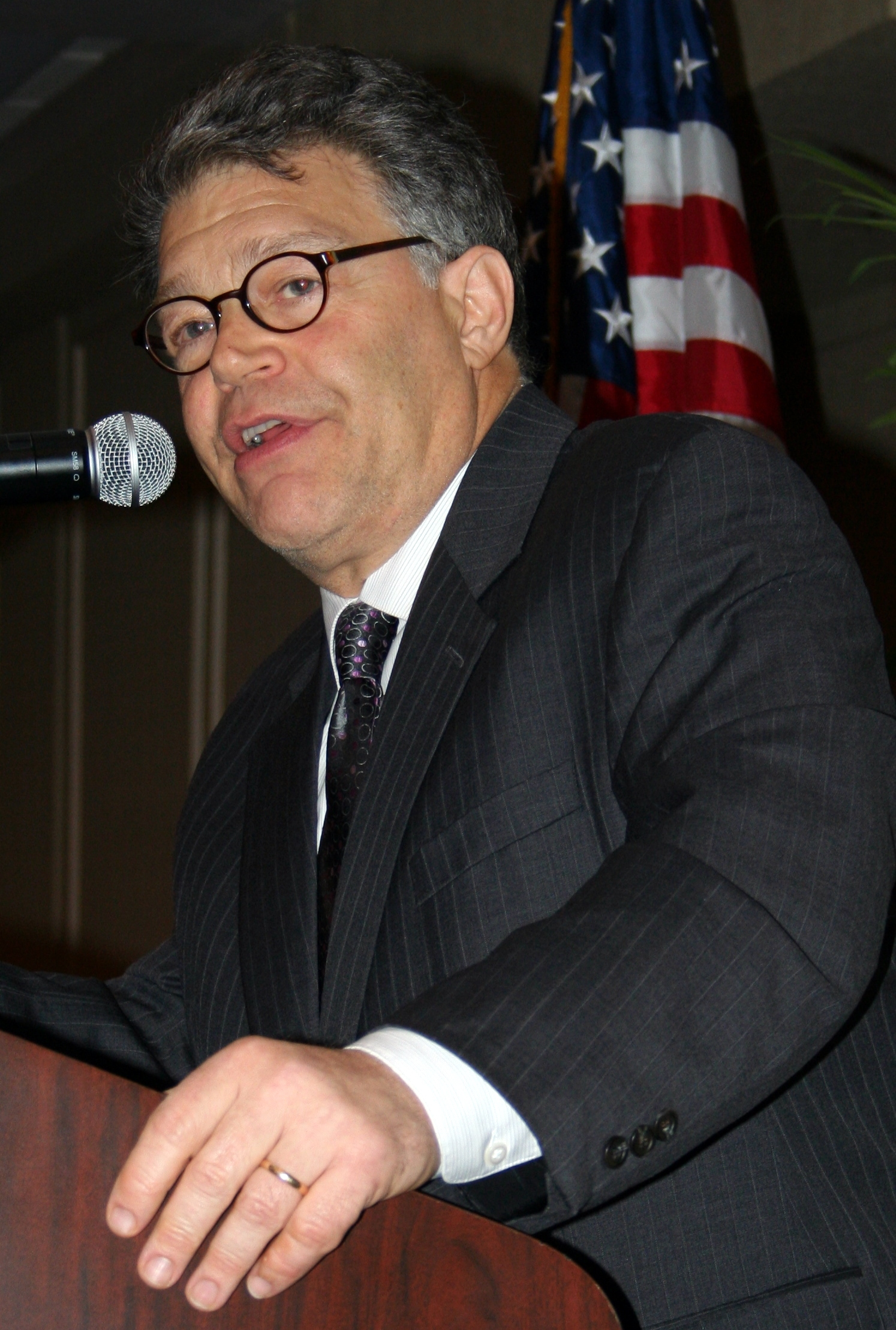 Al Franken (1951–) Alternative names Alan Stuart FrankenDescriptionAmerican politician, comedian and writerDate of birth 21 May 1951 Location of birth Manhattan Work period1973-presentWork location United StatesAuthority control : Q319084 VIAF: 86425630 ISNI: 0000 0001 1681 9289 LCCN: no93004145 NLA: 40034595 MusicBrainz: b0a3dda1-2cc0-404e-a26d-cdb3f302eb41 WorldCat creator QS:P170,Q319084 giving a political speech in Rochester, Minnesota.